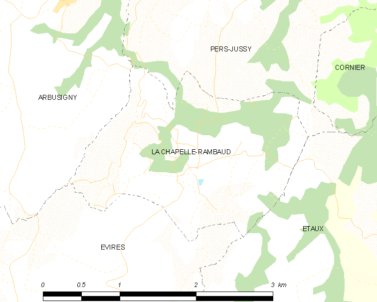 Map of French municipality La Chapelle-Rambaud